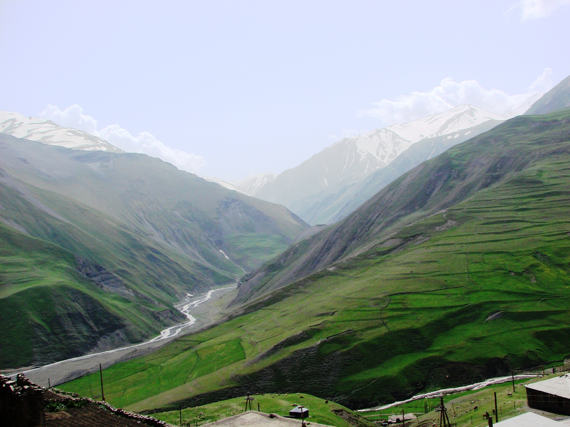 Mountains in Khinalug, Azerbaijan